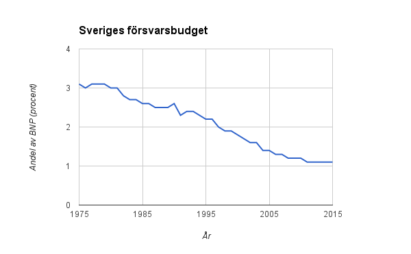 Sweden's military budget as a percentage of gross domestic product